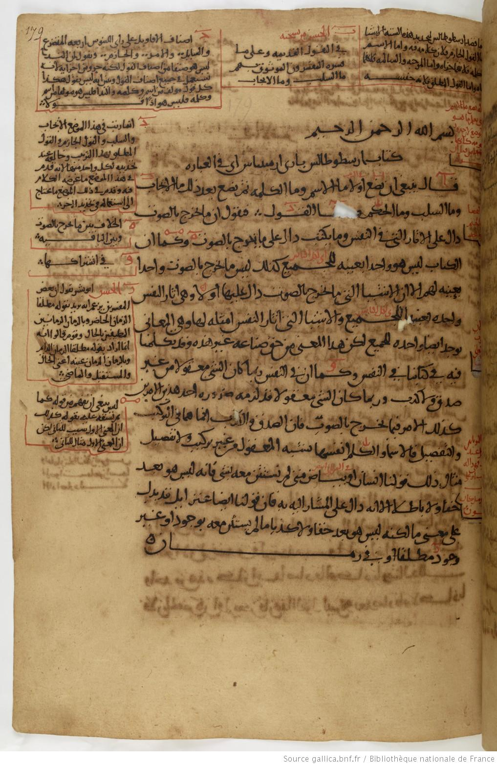 Organon Arabic manuscript.